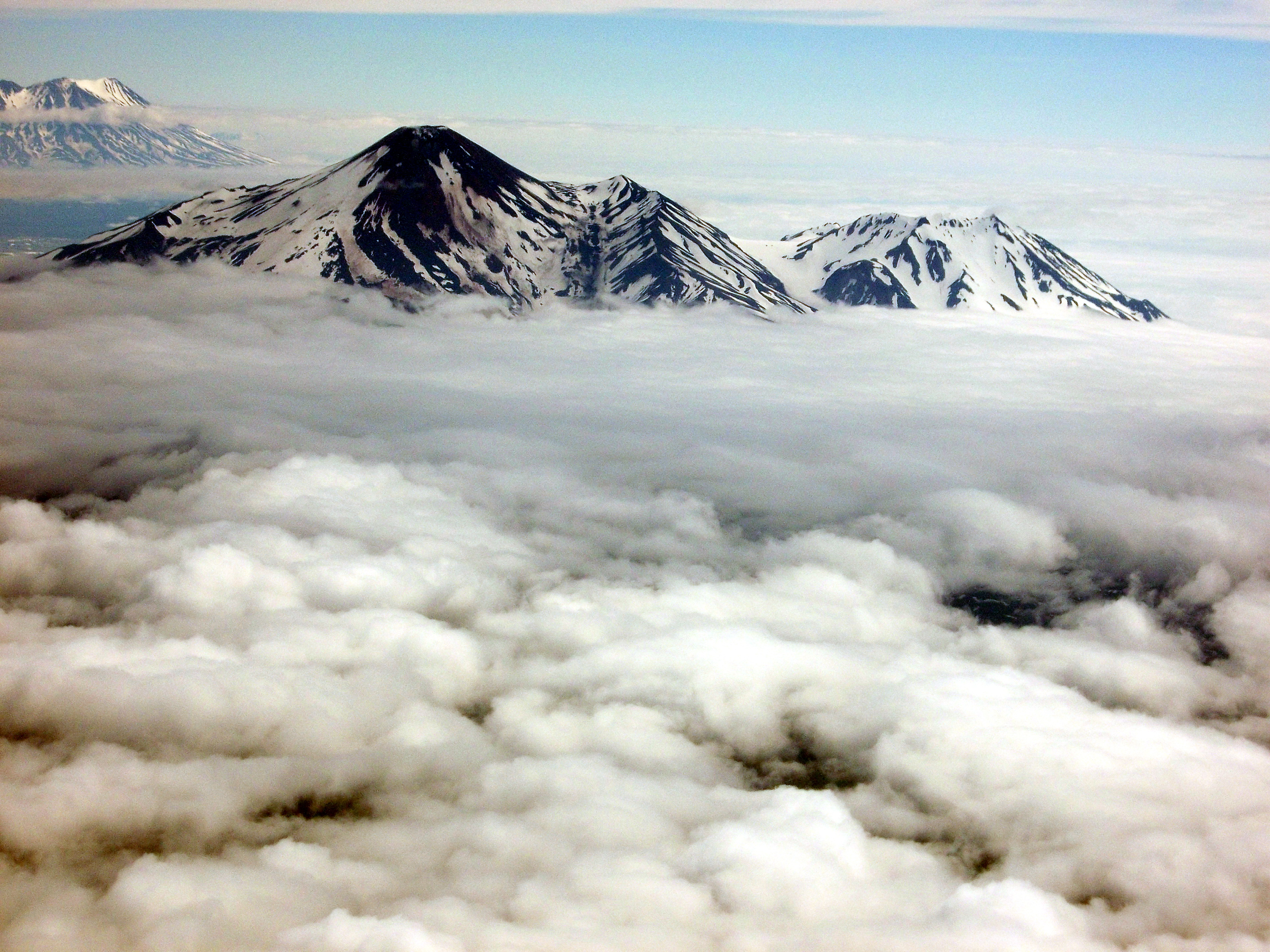 Avachinsky volcano (left) and Kozelsky volcano (right) in Kamchatka, Russia.)